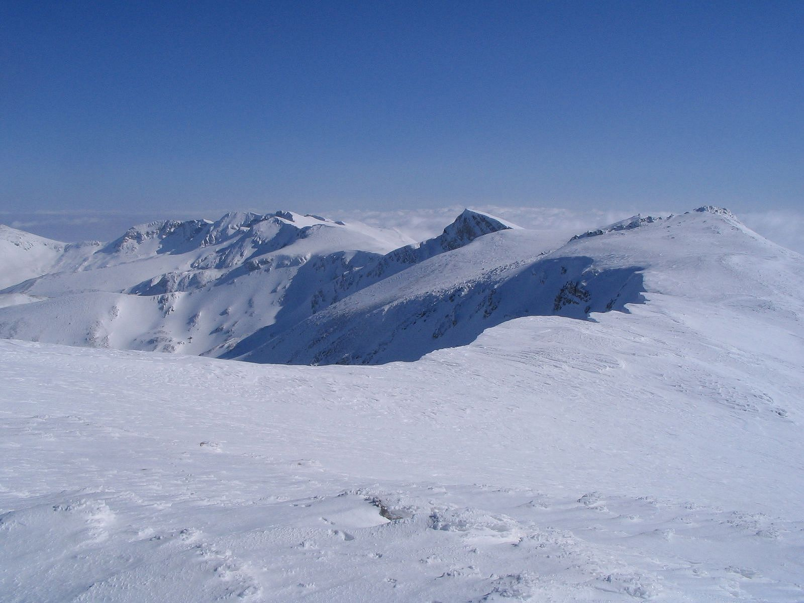 Assumed top of Uludağ range in Western Turkey, that is Kartaltepe.